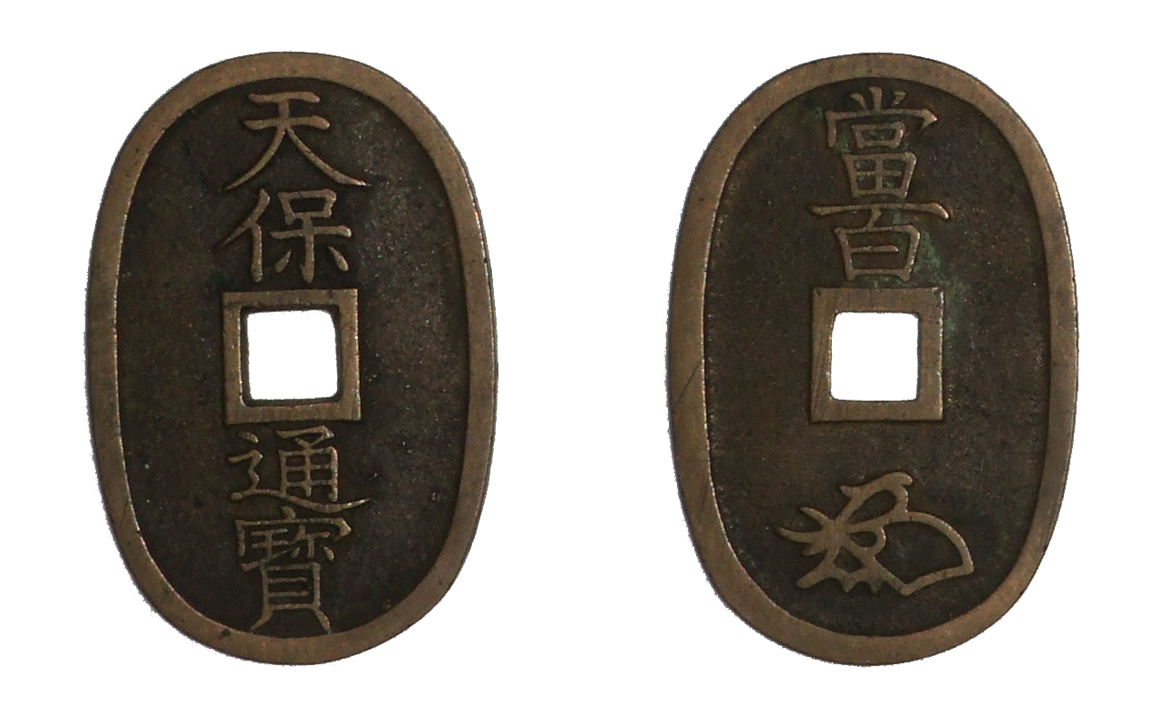 Tenpo-tsuho-chukaku